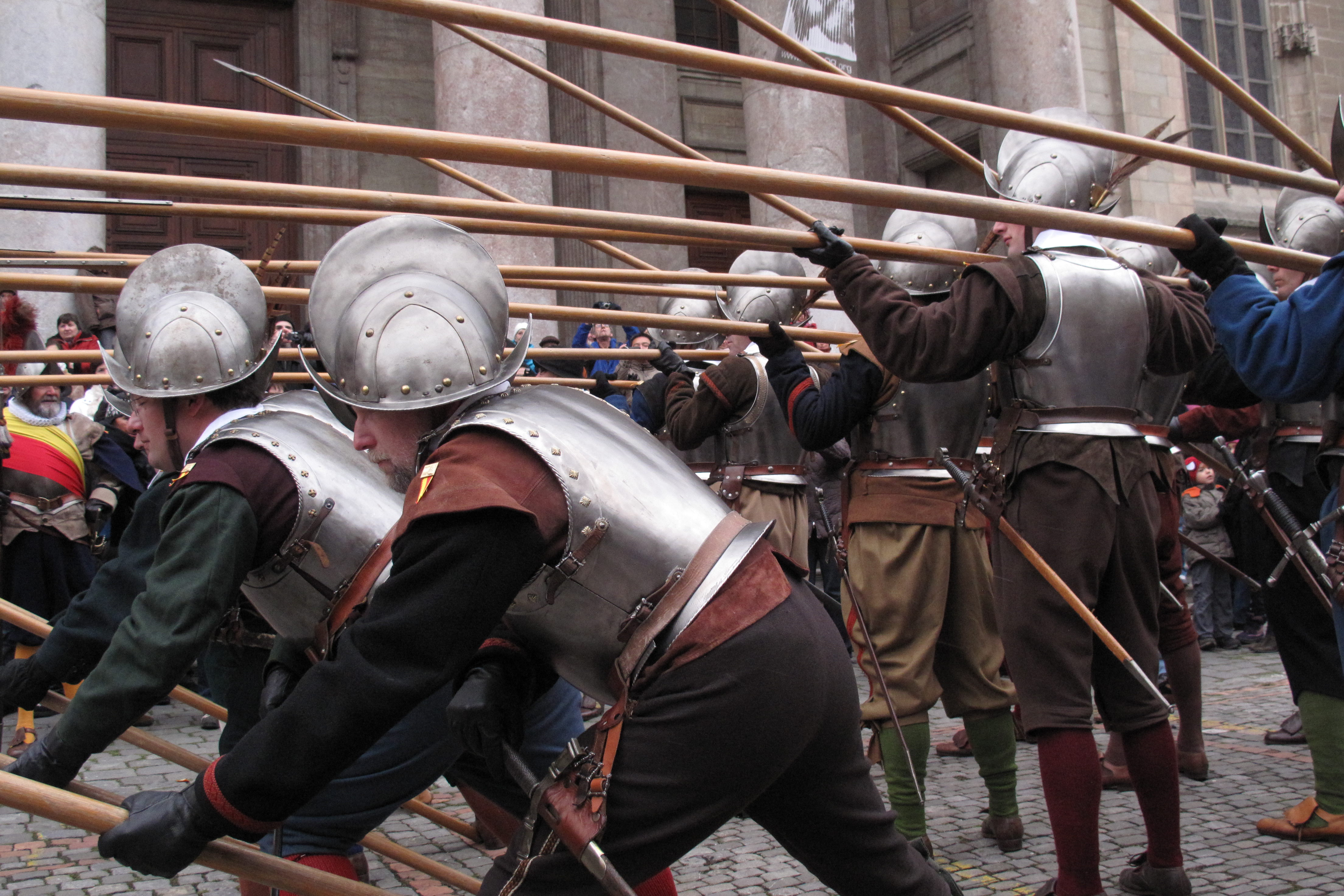 Pike squareRe-enactment during the 2009 Escalade in Geneva